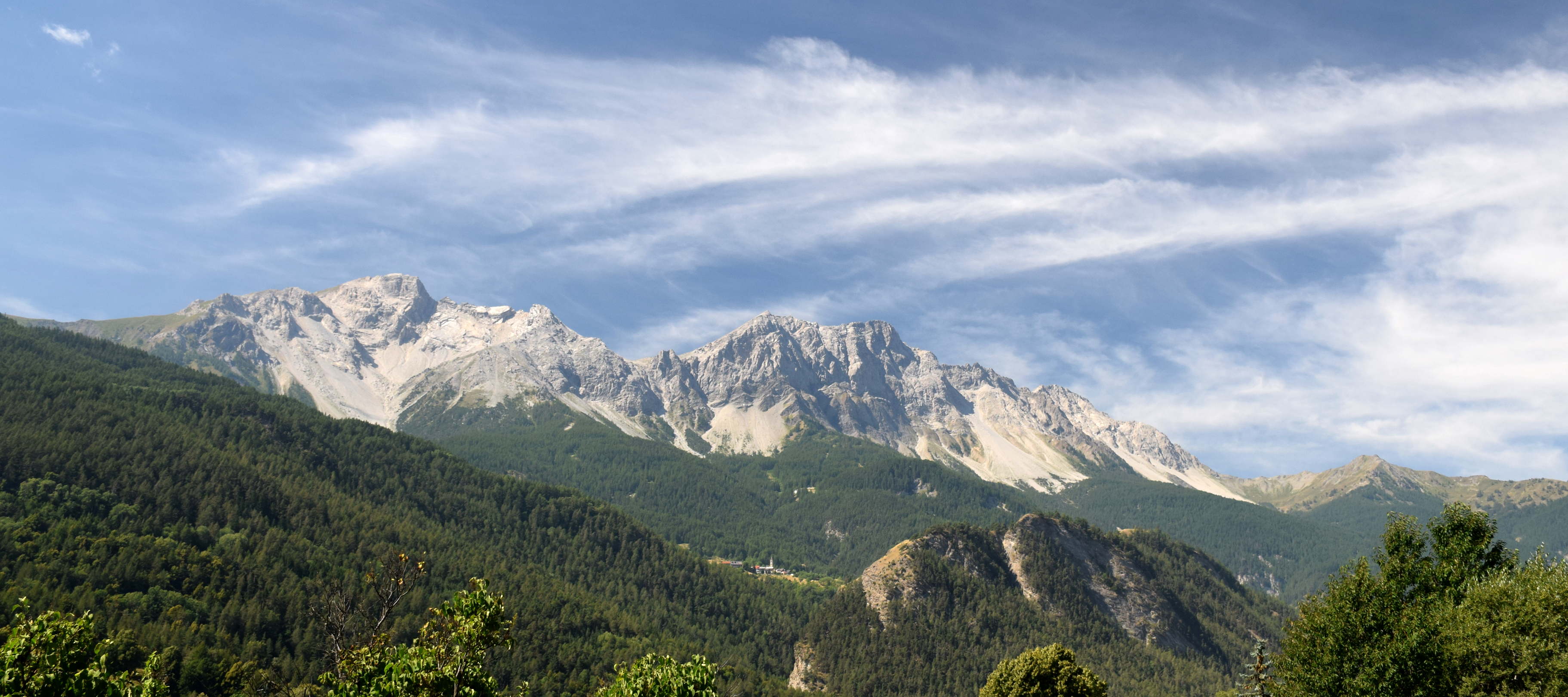 Punta Clotesse (2872 m), Grand'Hoche (2762 m) and Guglia d'Arbour (2803 m) seen from Savoulx